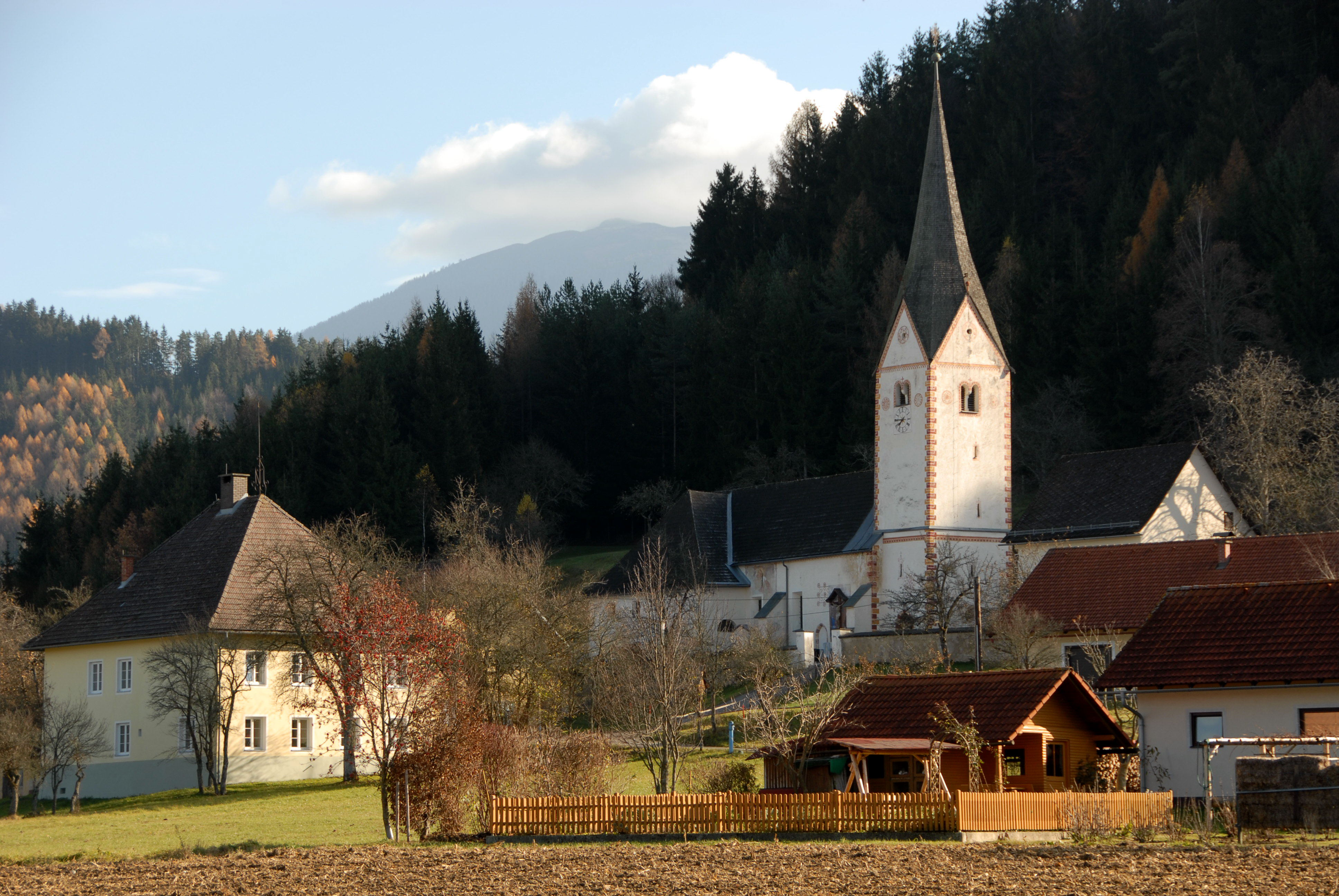 Church of Tichoja in the community of Sittersdorf, situated in the district Voelkermarkt, Carinthia, Austria